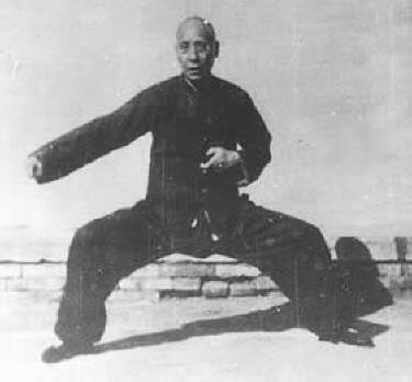 An image of an older Chen Fake, Chen style Tai Chi Chuan Master, playing the form